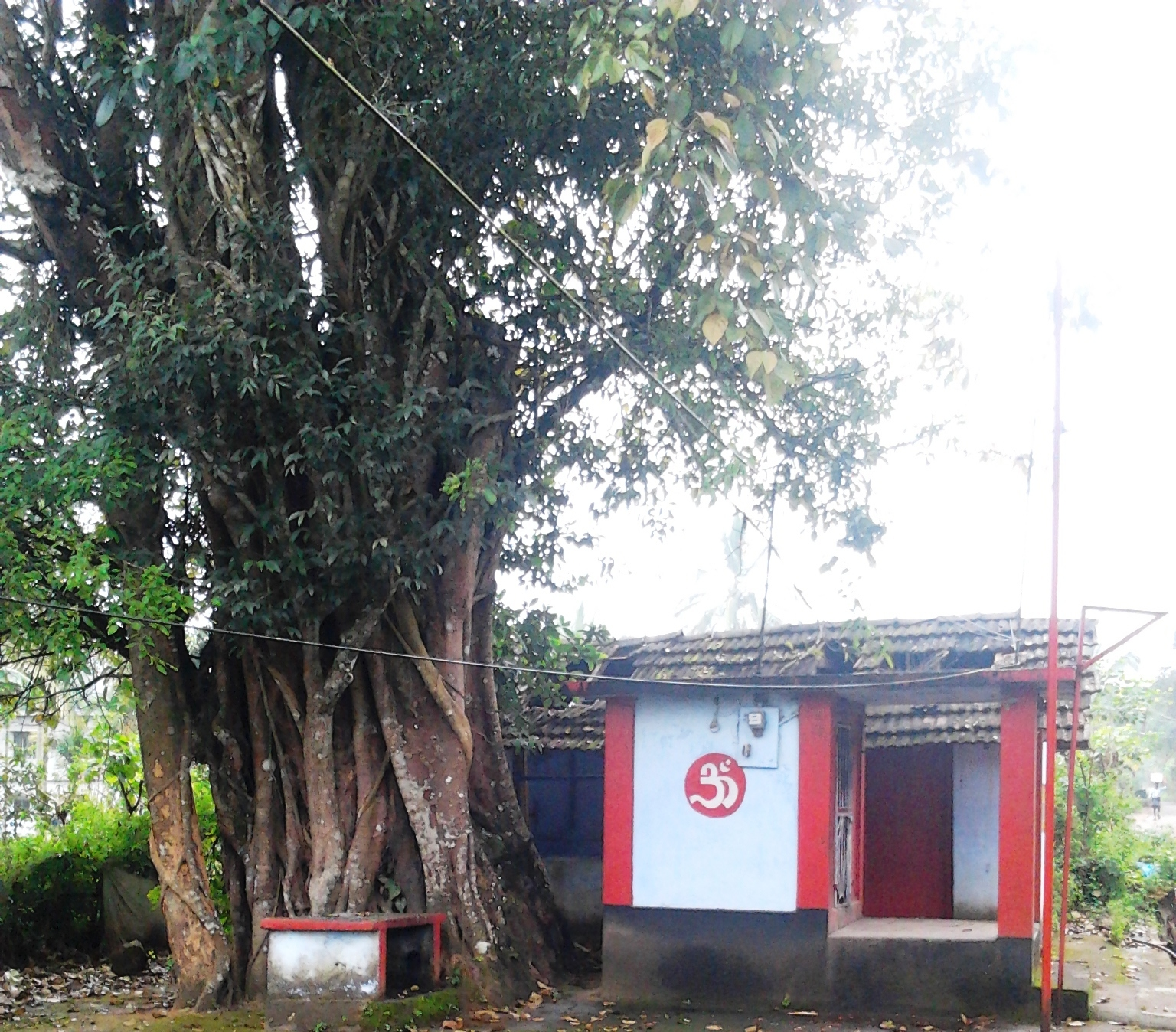 Bhajana Temple at School Road, Devala.